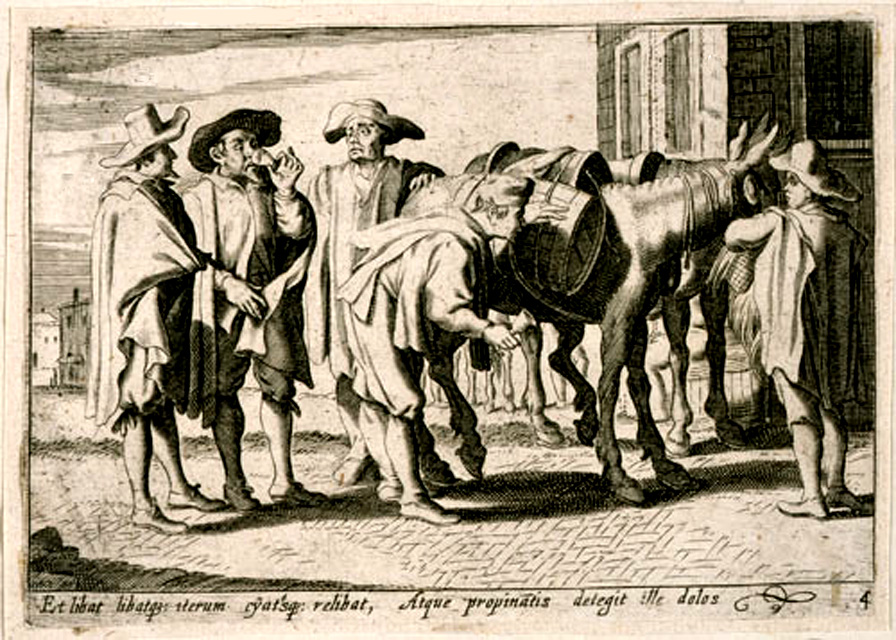 Merchant of wine Cornelius de Wael (1592-1662)